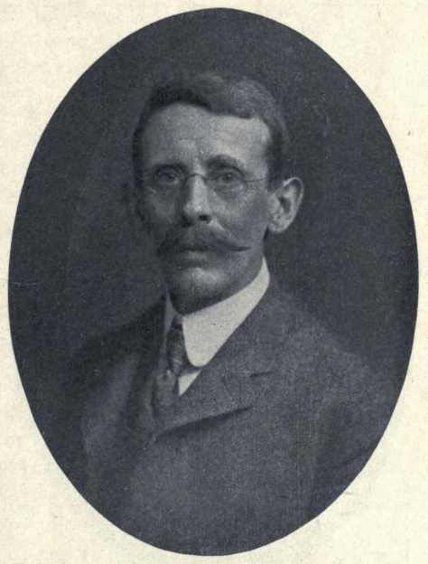 J M Southwick, Rhode Island naturalist